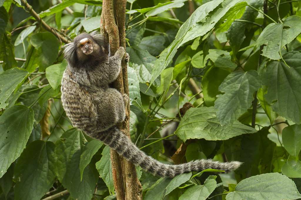 Common Marmoset - REGUA - Brazil_MG_9443